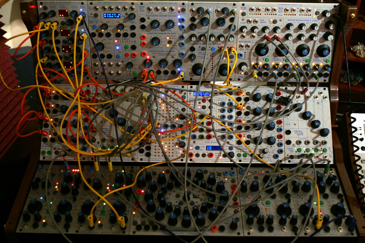 Photo of Buchla 200e patched to provide asymmetric portamento rates for up and down intervals. Original photo by Michael Tiemann.